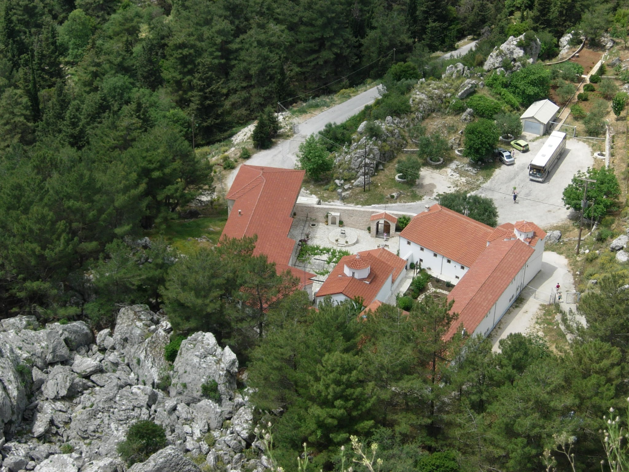 Monastery of Zalongo, below the dancing women.